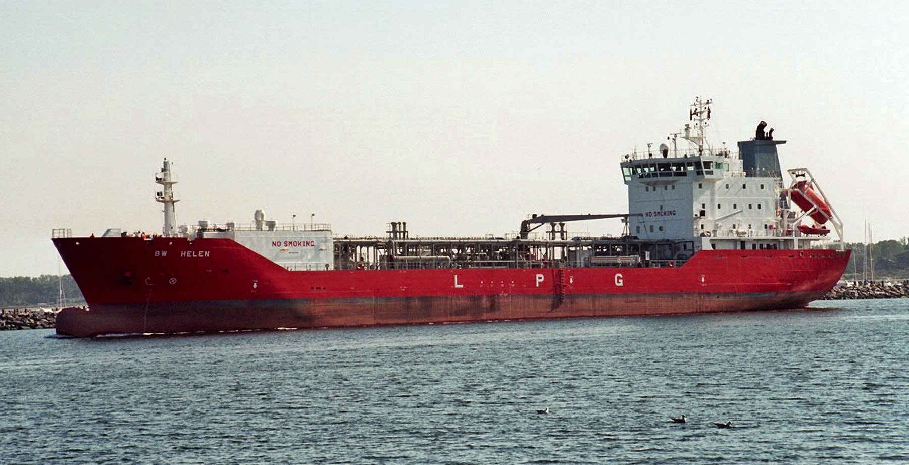 The liquified petroleum gas carrying tanker called BW Helen (IMO 9207039) seen in Warnemünde outward bound from the port of Rostock.